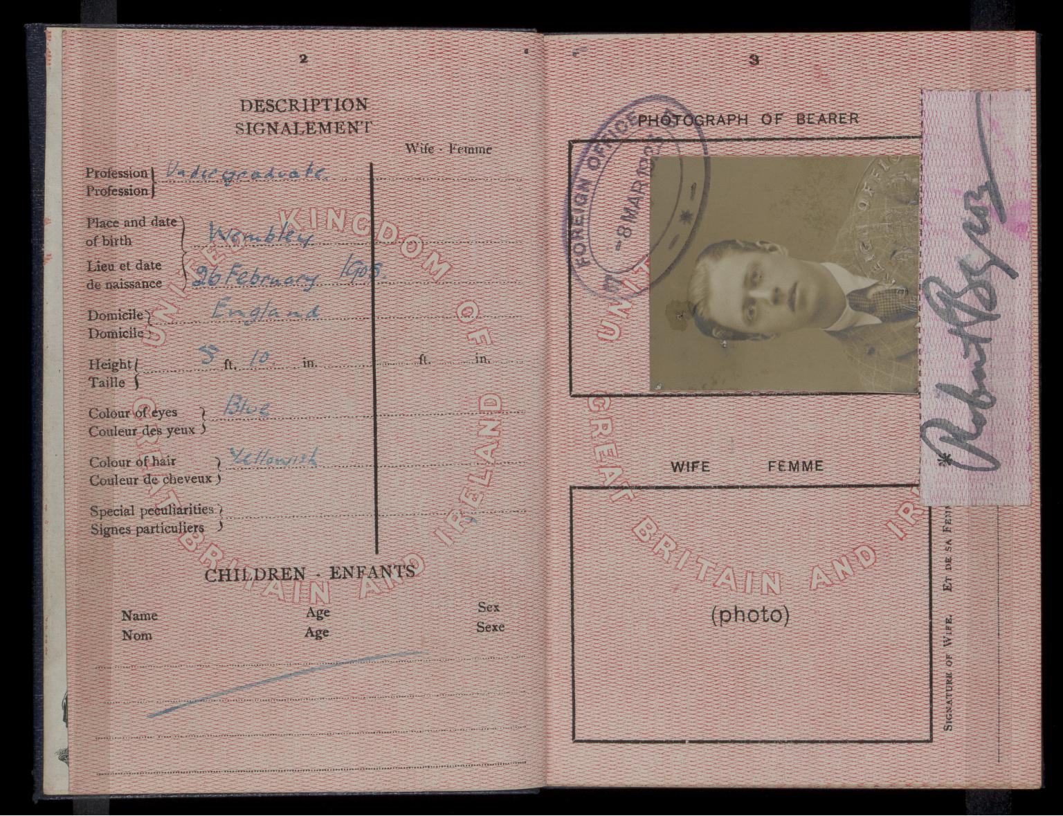 United Kingdom passport issued to travel writer Robert Byron (1905-1941). Byron is listed as an 'undergraduate' at the time of issuance. Black-and-white, 15 cm. Robert Byron Papers, General Collection, Beinecke Rare Book and Manuscript Library, Yale University, New Haven, Connecticut.